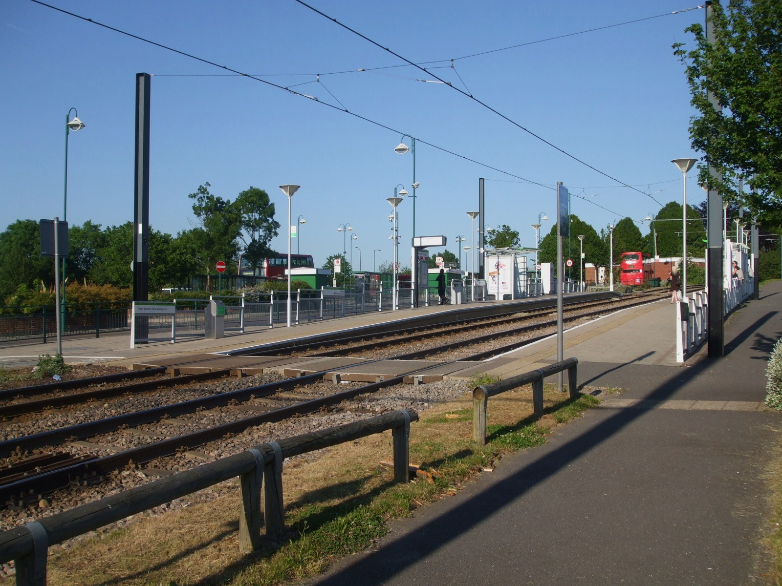 Addington Village tram stop western entrance, with the adjoining bus station visible in the background